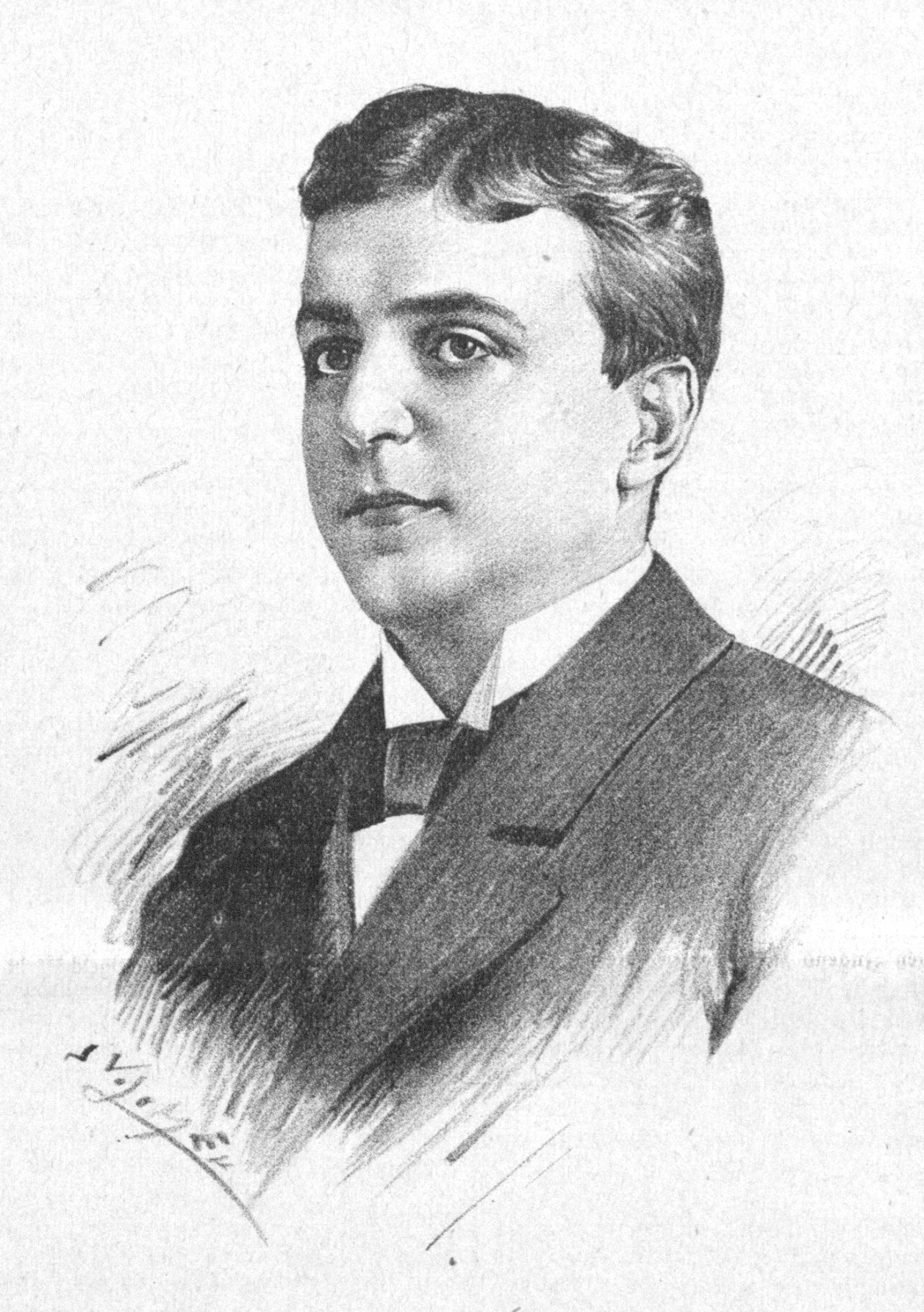 Portrait of Hugo Jessen (1867-??), German actor